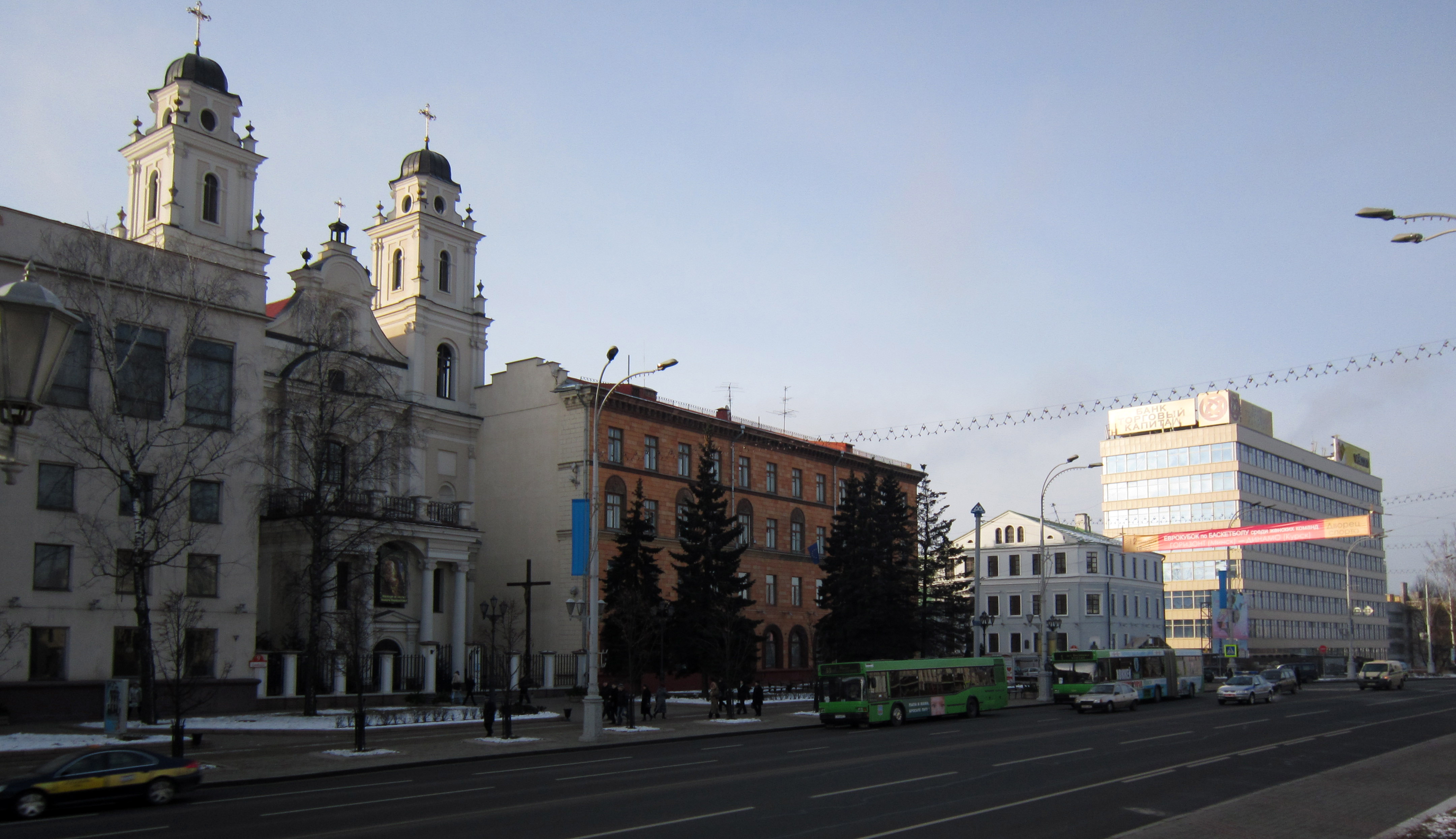 Minsk cathedral and neighborhood